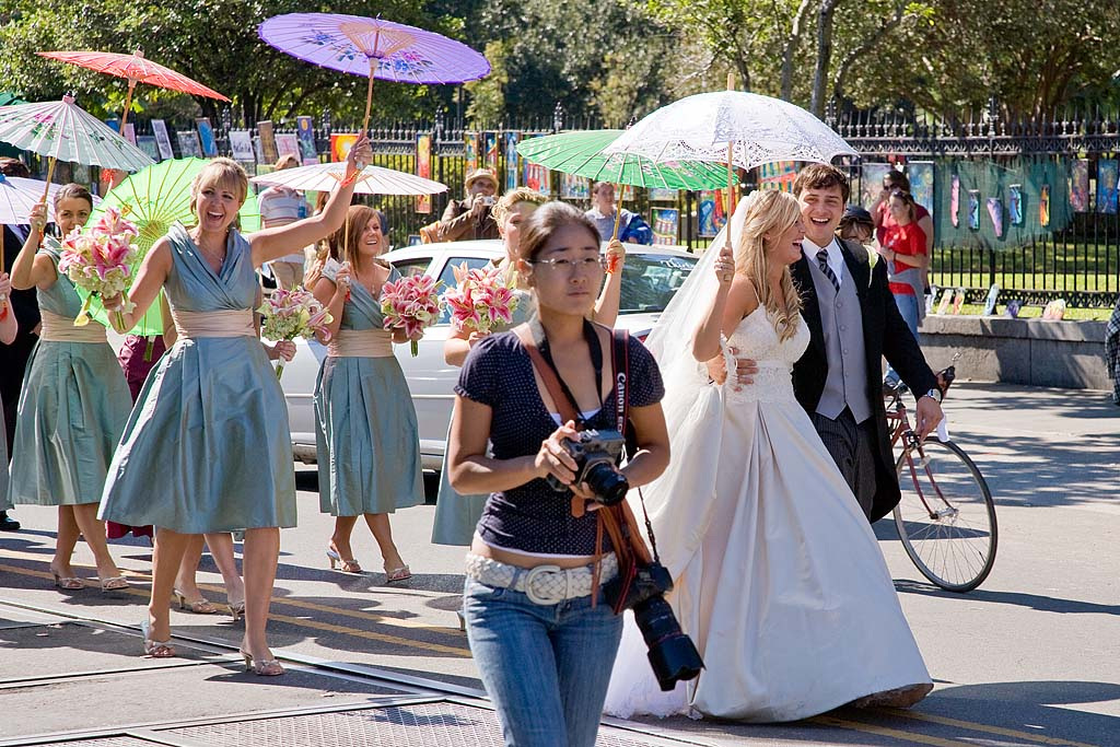 Wedding second line at Jackson Square, New Orleans, 2007